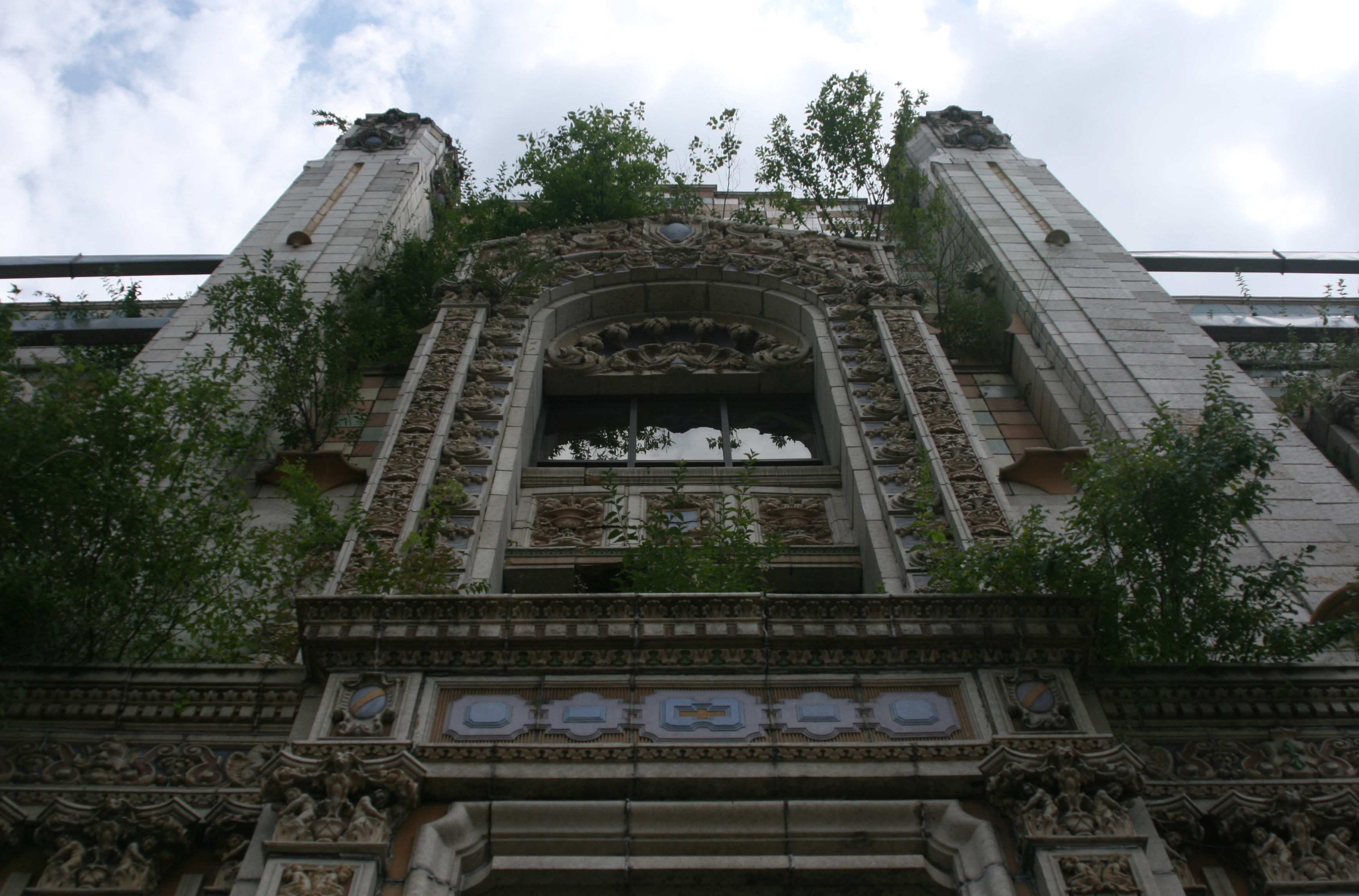 The front facade of the Majestic Theatre in East St. Louis.